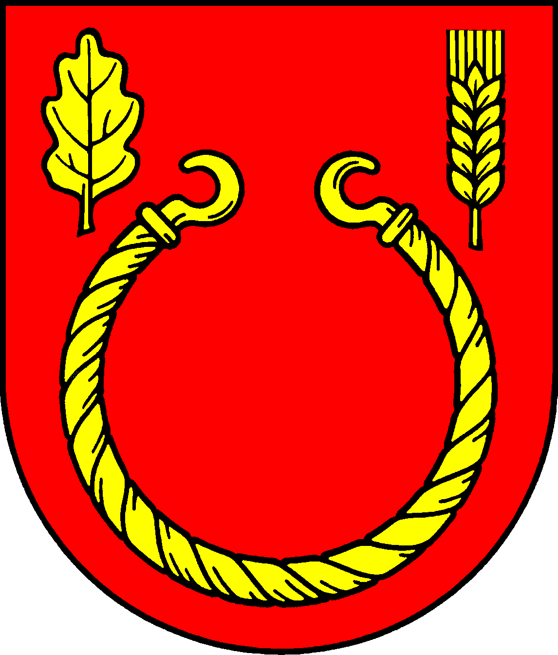 Coat of arms of the municipalitie Holm in Schleswig-Holstein, Germany.